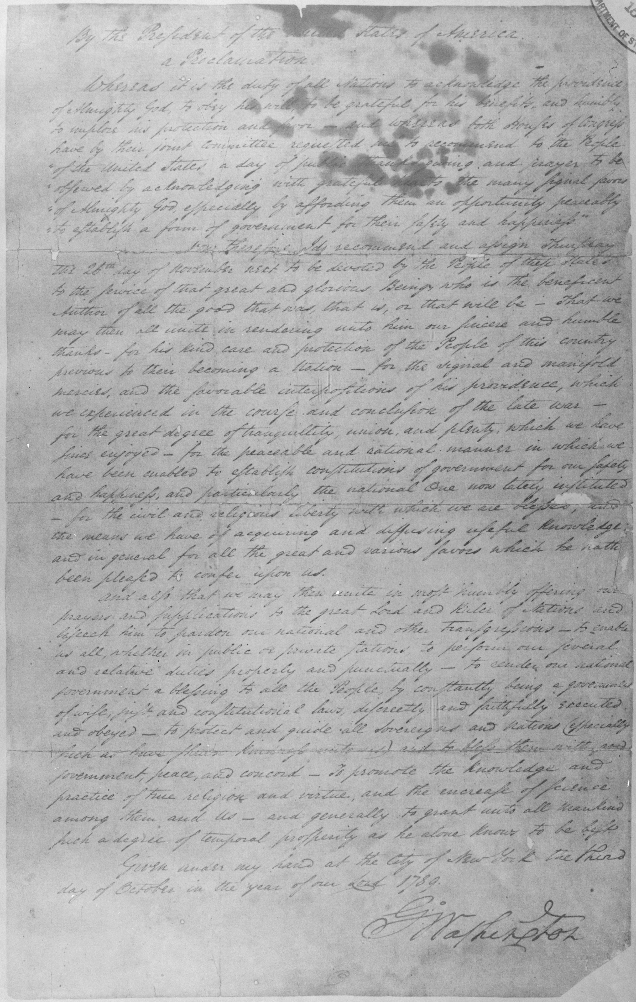 General notes: This document has been reproduced on National Archives Microfilm Publication T1223.